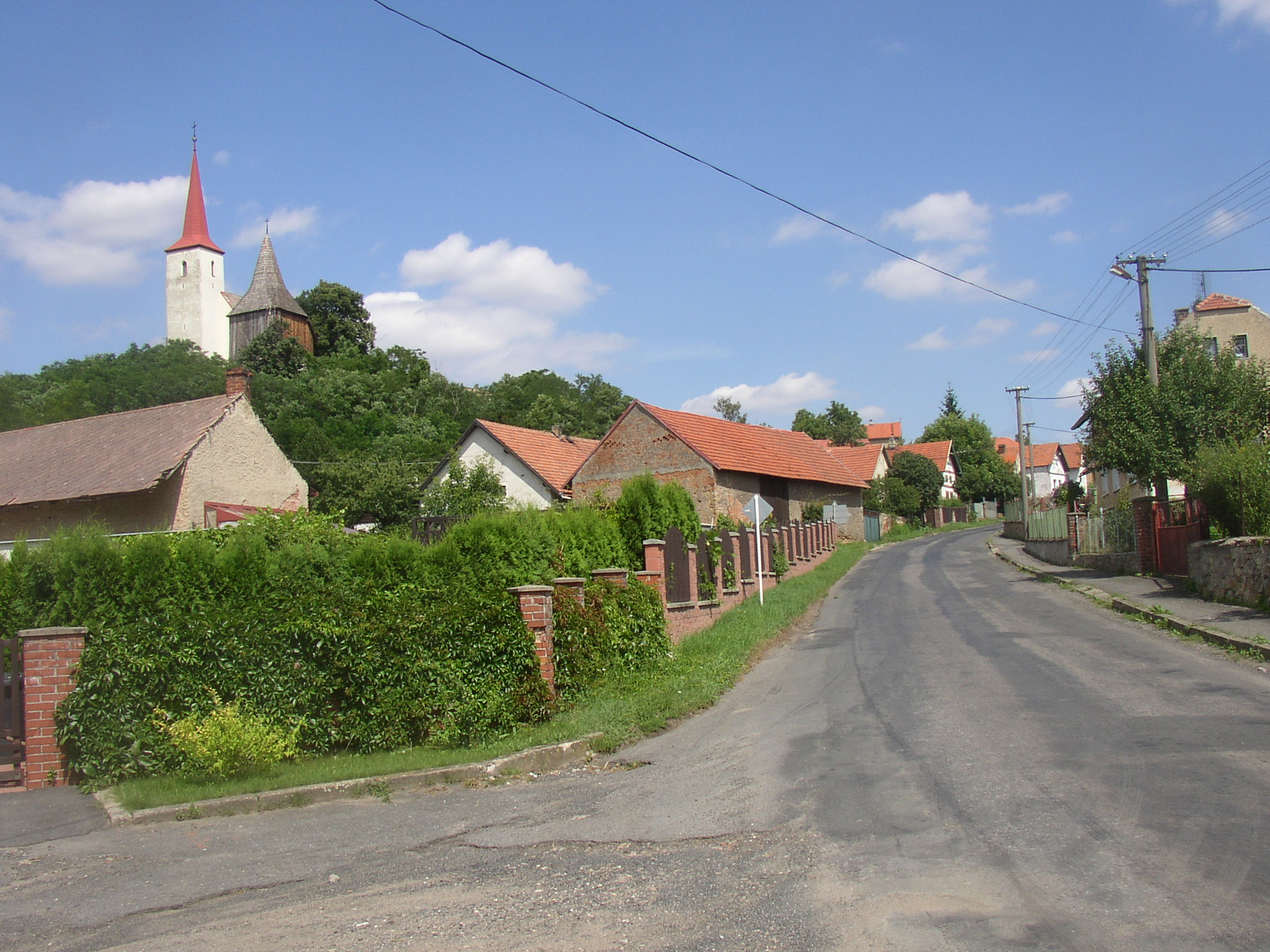 Vitice, Kolín District, Czech Republic. A view from crossroads in SW part of the village towards ENE. Church of SS Simon and Jude with wooden belfry on the left.